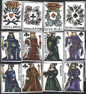 Ancient French playing cards (XVI century?)